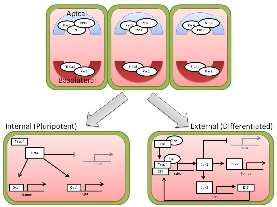 Transcriptional regulation of the mammalian inner cell mass (ICM) and trophectoderm (TE)during embryogenesis.